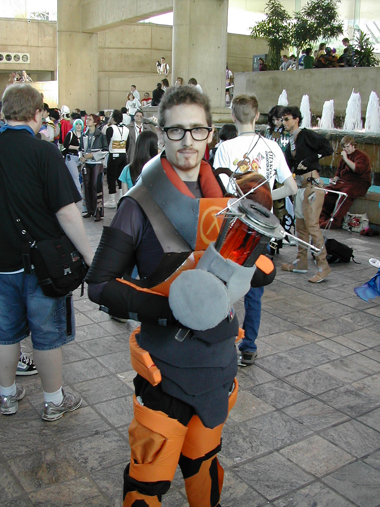 A man cosplaying as Gordon Freeman, the protagonist from the Half-Life franchise.